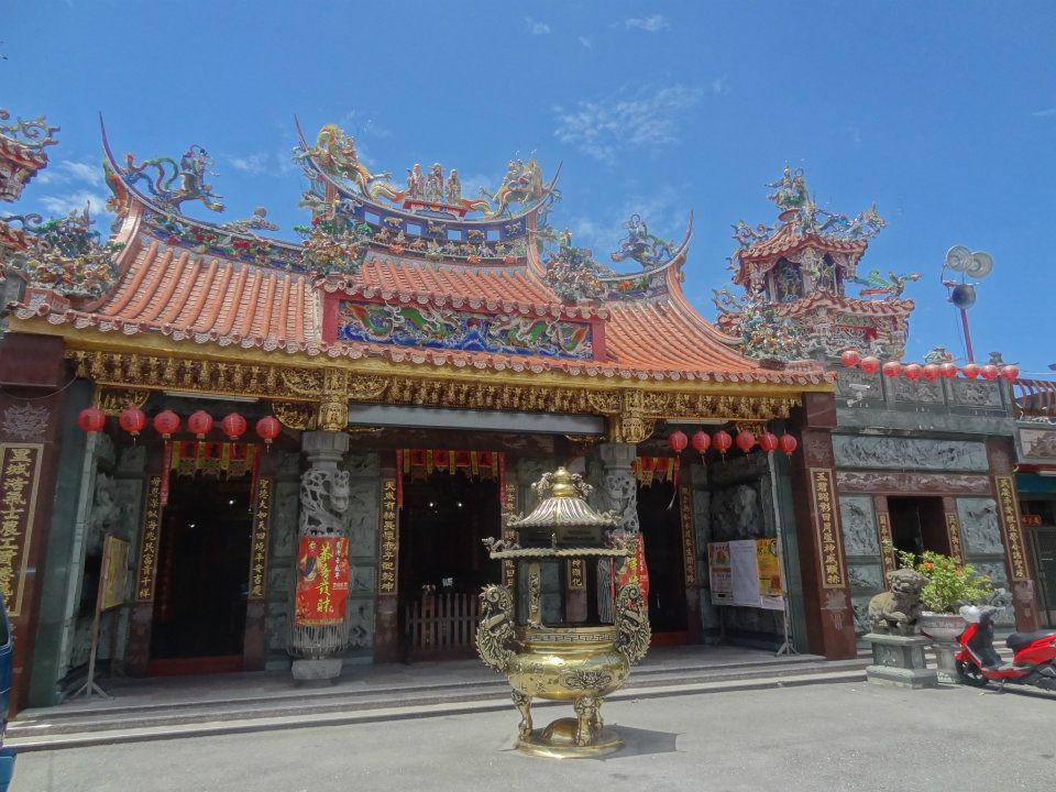 View from the front of the Sietian Temple, located at Yuli Township in Hualian County.